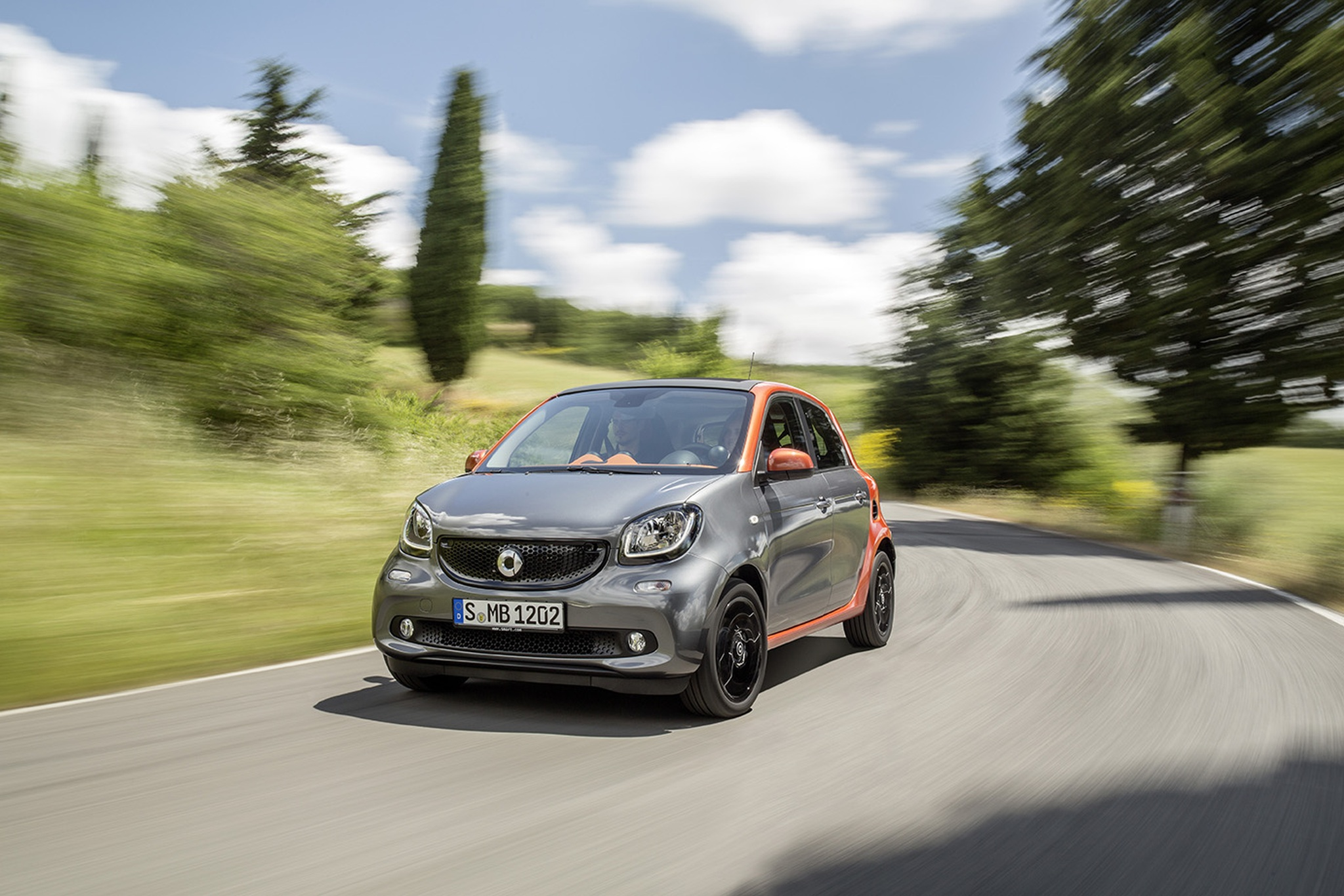 Karosserie in graphite grey (metallic), tridion Sicherheitszelle in lava orange (metallic) Body in graphite grey (metallic), tridion safety cell in lava orange (metallic)